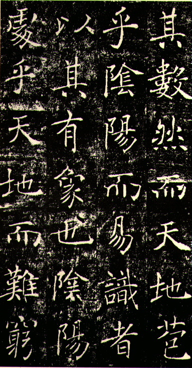 Chu Suiliang (褚遂良; en:595-en:658) Sheng Jiao Xu.